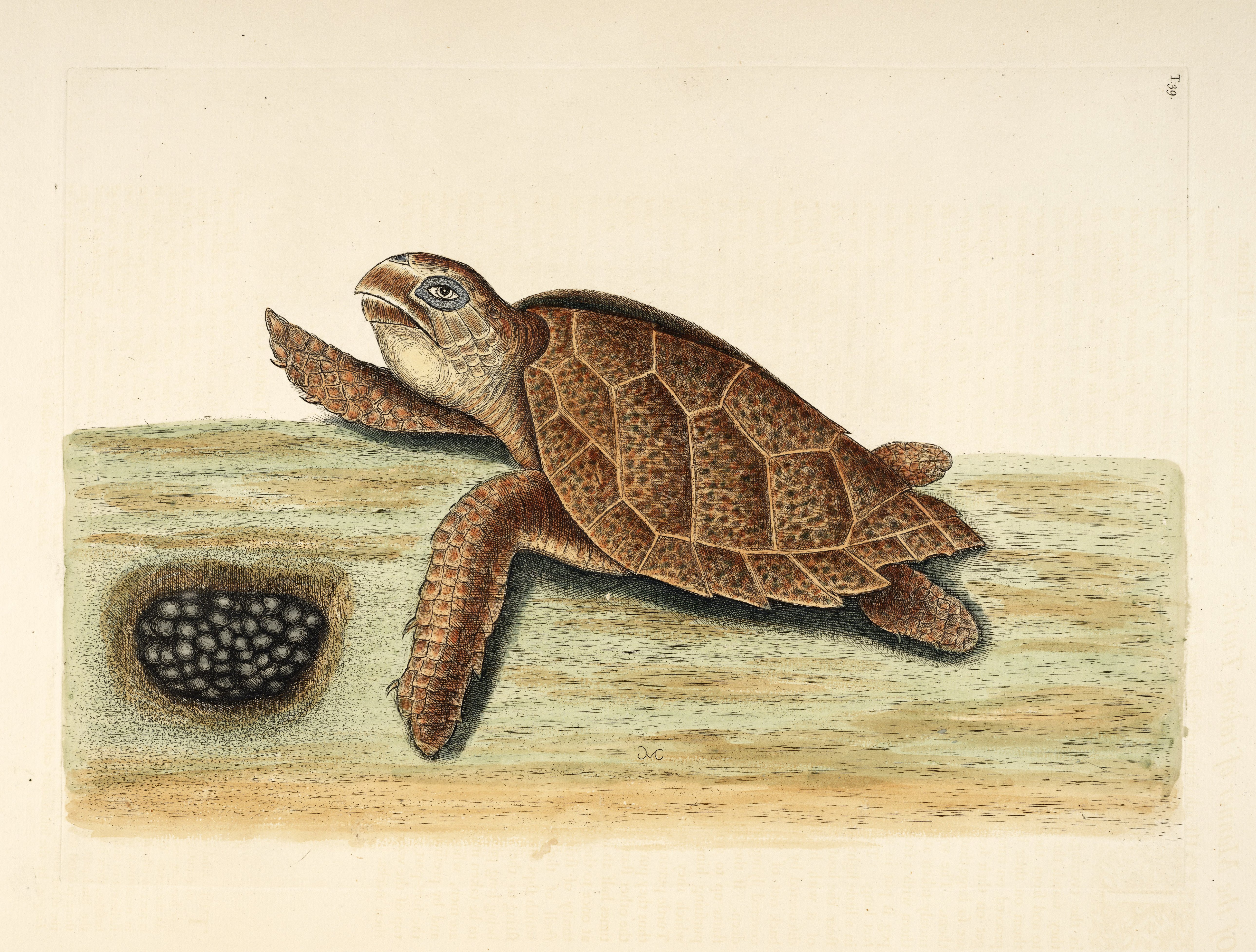 Mark Catesby (1743), Natural History of Carolina etc., vol 2, plate 39, with Testudo caretta, the Hawksbill turtle (Eretmochelys imbricata).